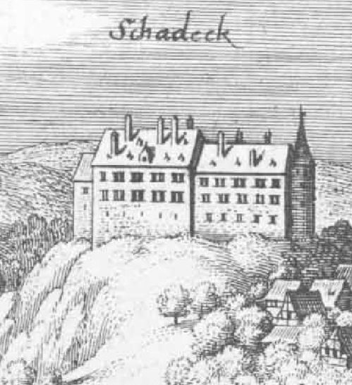 This is a scan of the historical document: Title: Schadeck - Topographia Hassiae language: german